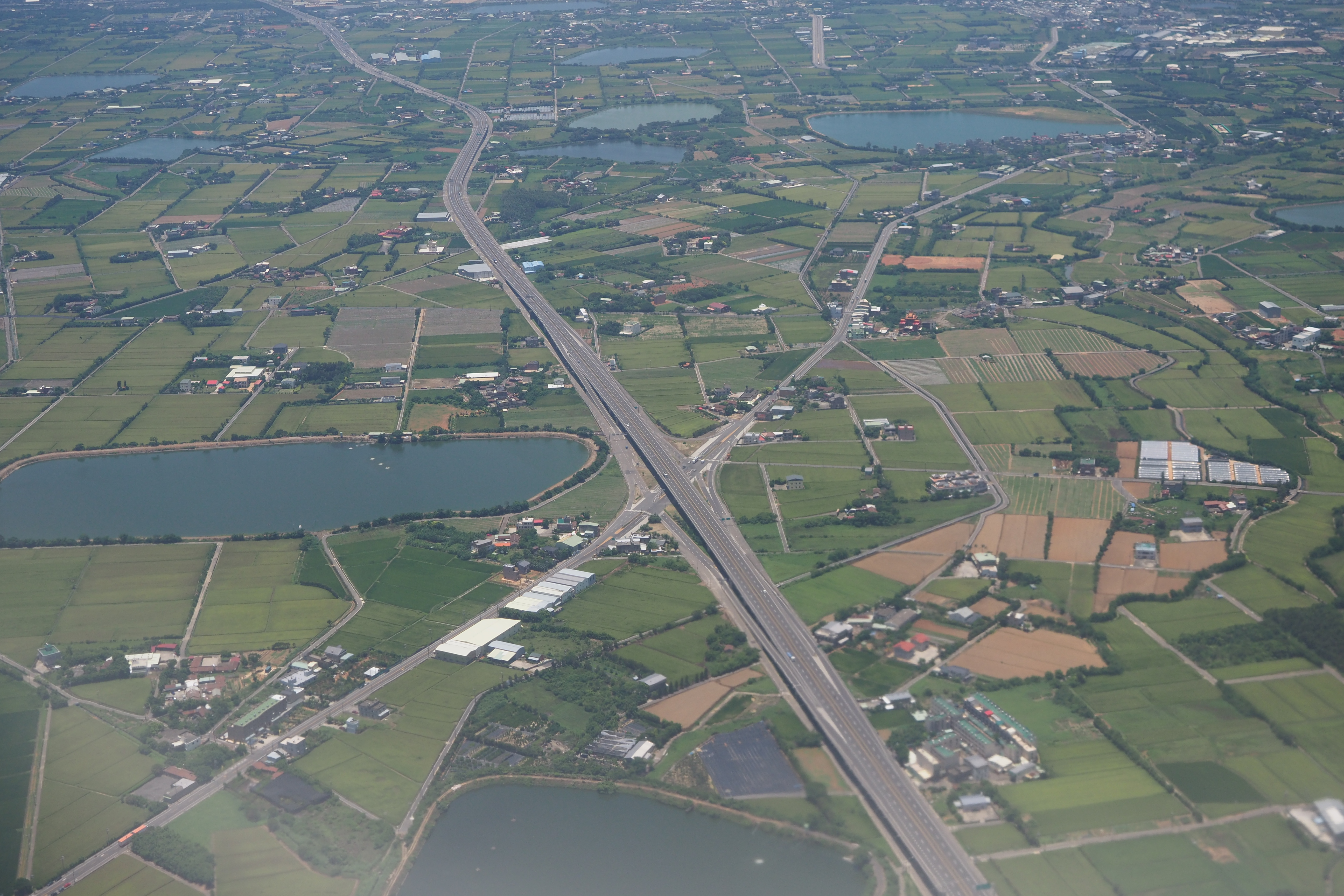 Guanyin 1 Interchange